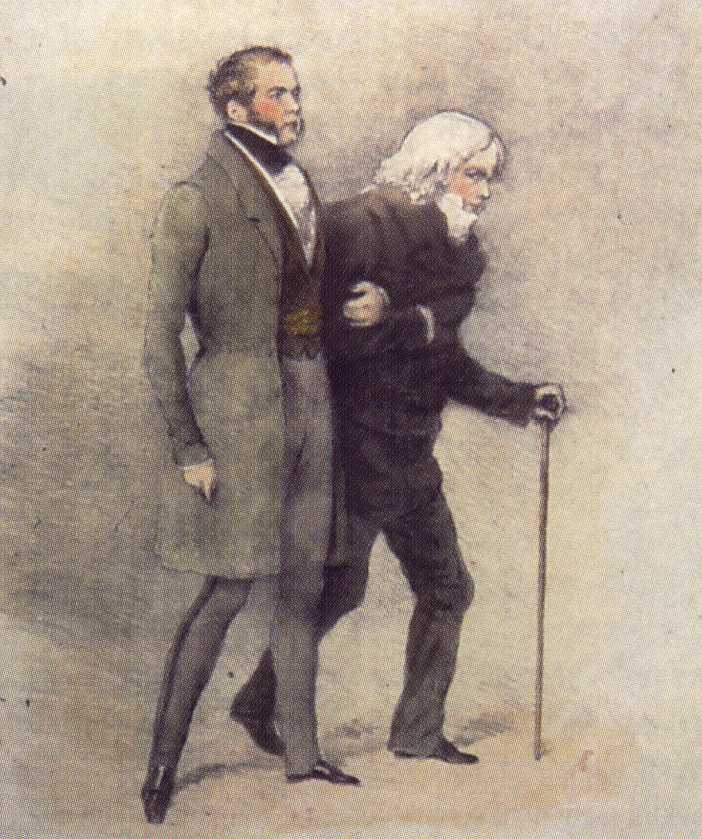 Caricature of French Statesman Charles-Maurice Talleyrand-Perigord and John Doyle (later Lord Palmerston) by Thomas McLean. The caricature was originally published in Great Britain in 1832. Its original title ran "The lame leading the blind".